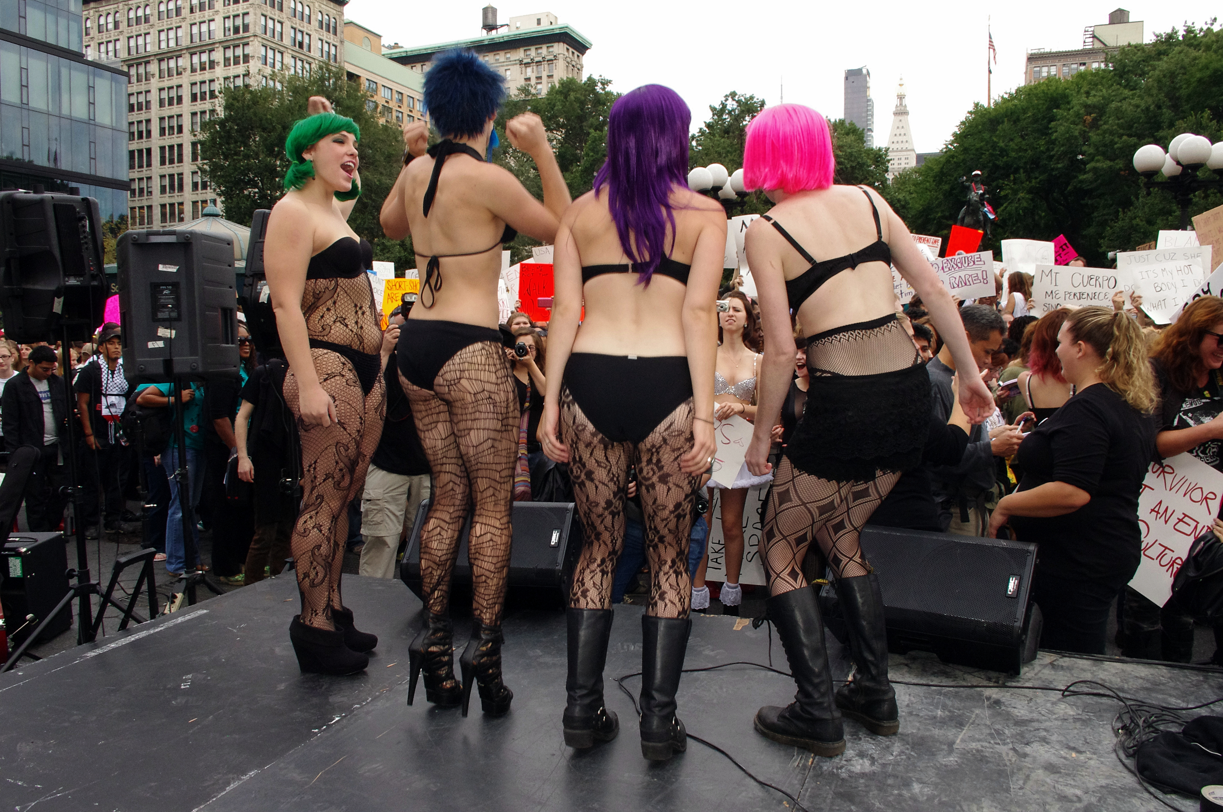 Photos from SlutWalk NYC on Saturday in Manhattan's Union Square.